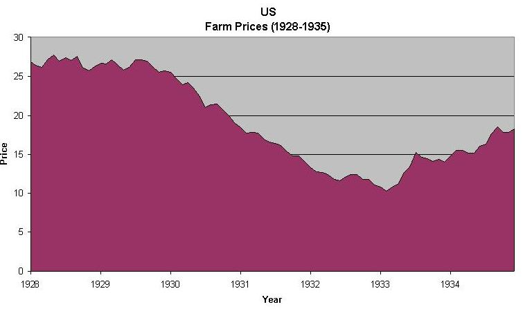 US Farm Prices, 1928-1935